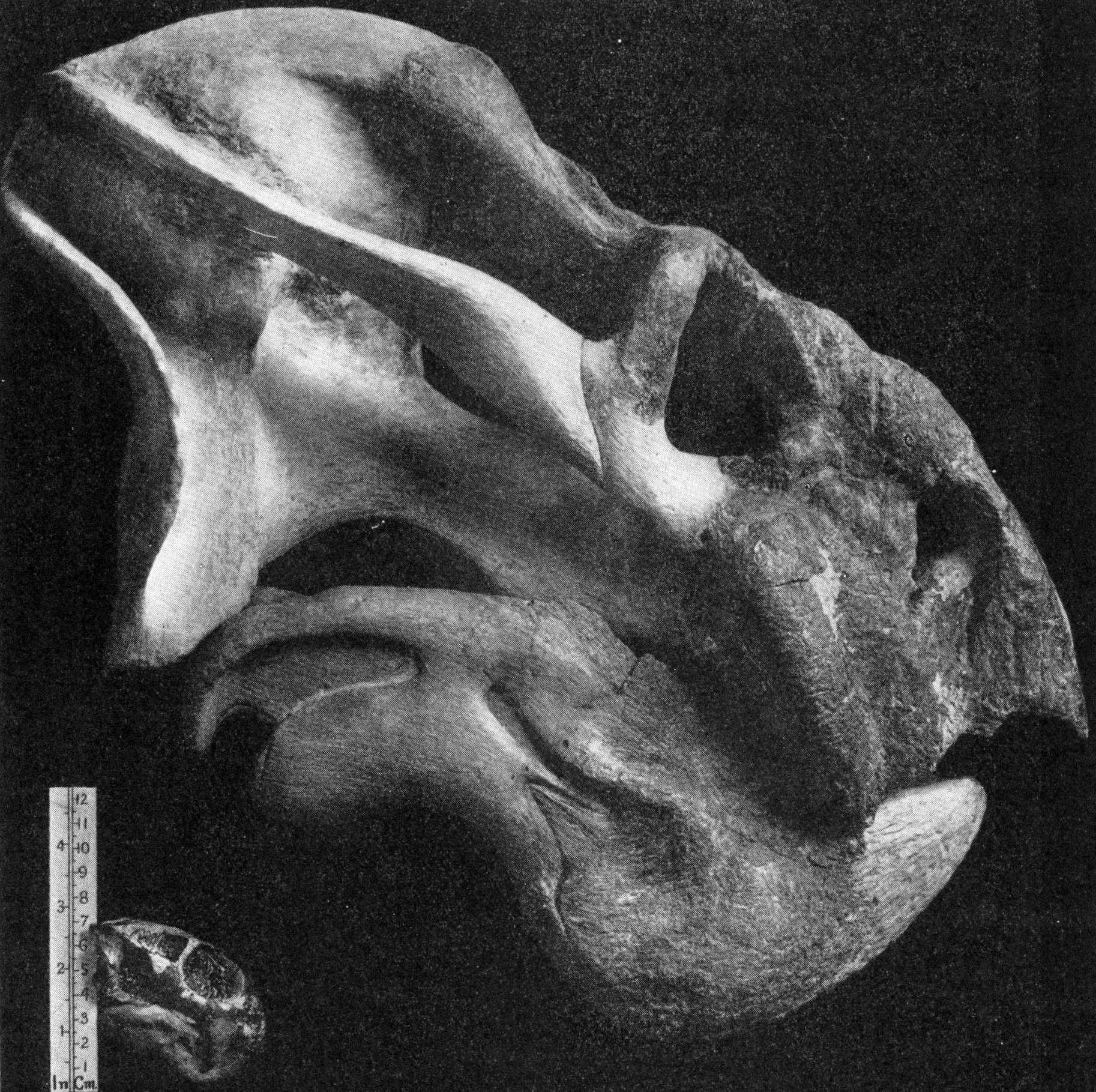 Odontocyclops (formerly Dicynodon whaitsi) and Diictodon galeops (small, below) skulls, specimens 5566 and 5308.